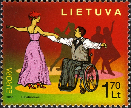 Europa 2006. Integration. Date of issue: 15th April 2006. Designer: H. Ratkevichius Paper: chalky Printing process: offset Perforation: comb 13 1/4 Size of a stamp: 36,50 x 30 mm Size of a Miniature Sheet: 98 x 176 mm Miniature Sheet composition: 10 (2 x 5) stamps Printing run: 200.000 stamps or 20.000 Miniature Sheets Michel catalogue numbers: 902-903 1,70 (L). multicoloured. Amusements of the disabled